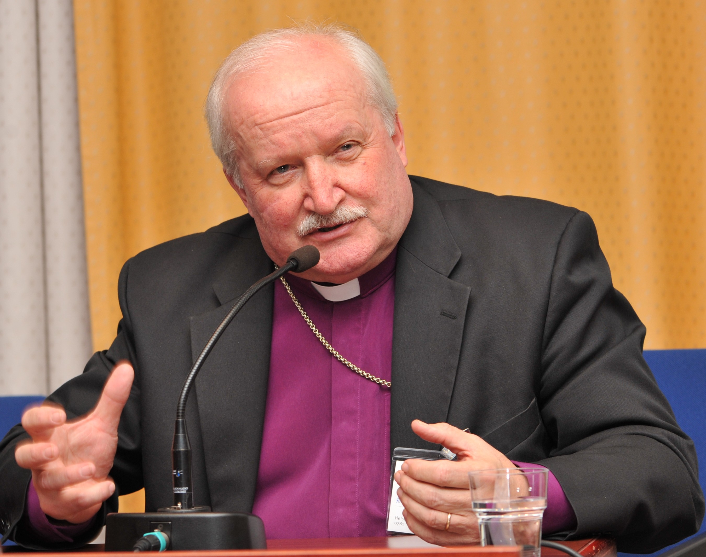 Wille Riekkinen, Finnish bishop, Helsinki Book Fair 2009.